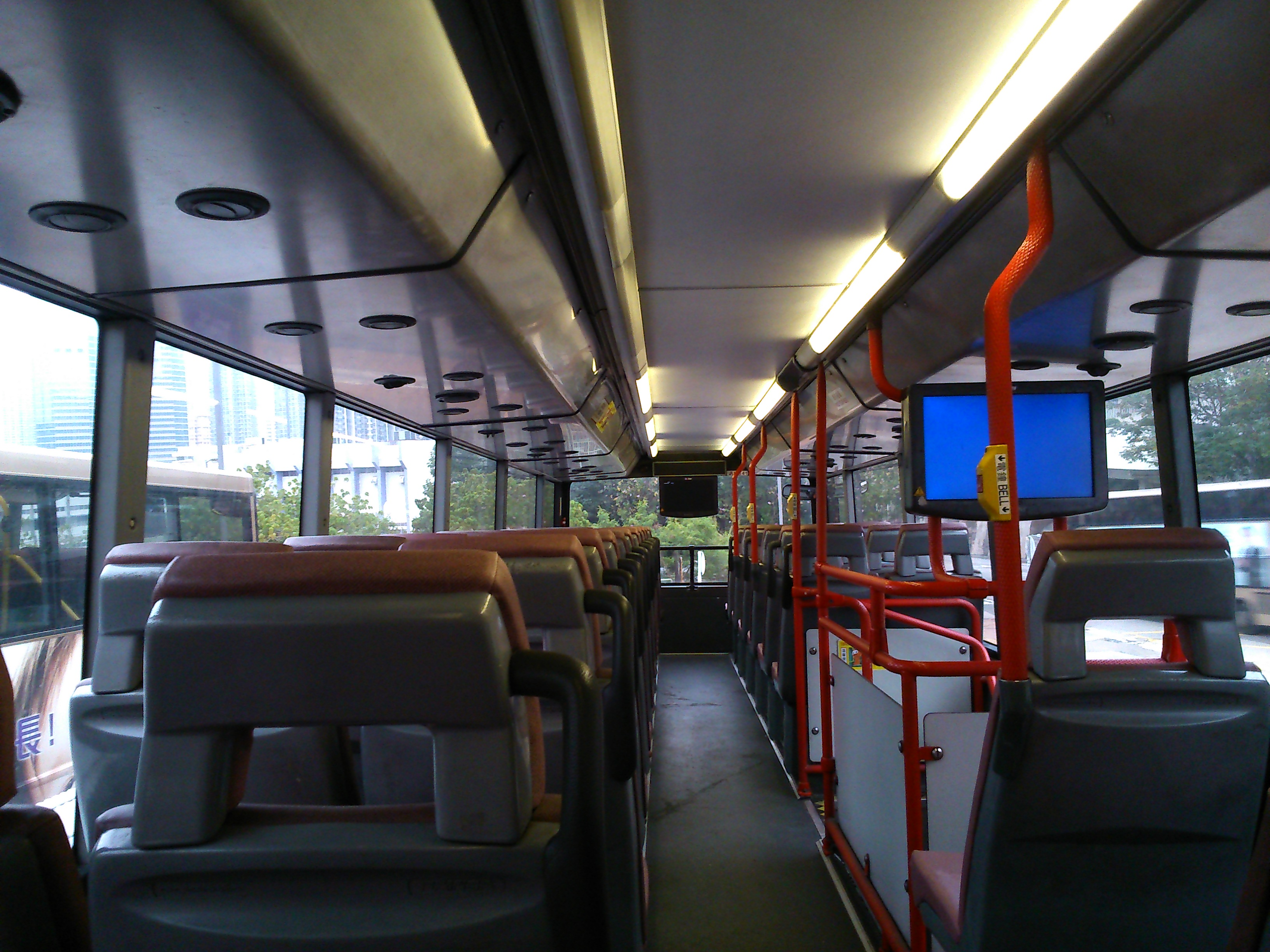 Upper deck interior of a KMB Berkhof MAN24.310